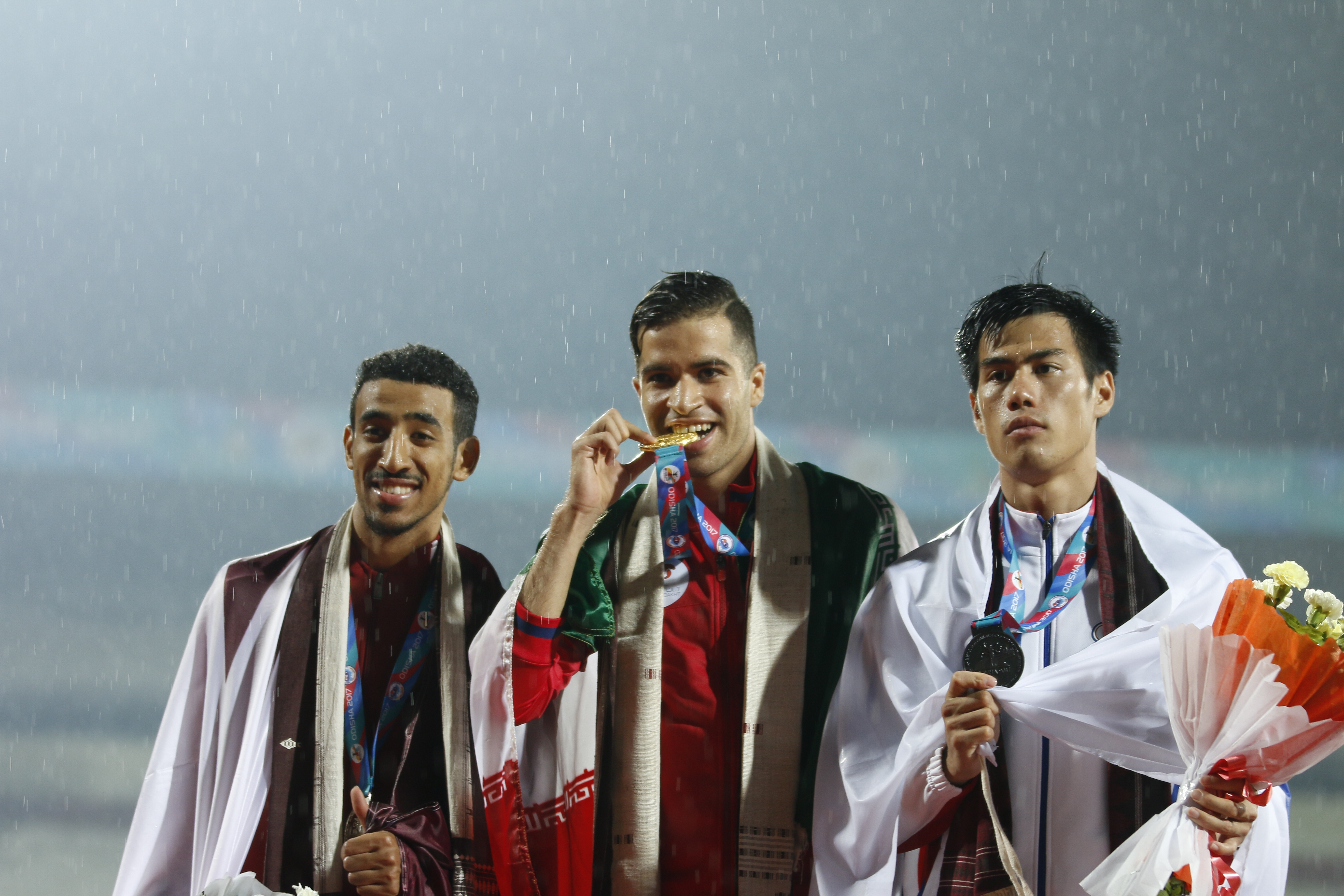 Athletes during 22nd Asian Athletics Championships in Bhubaneswar.